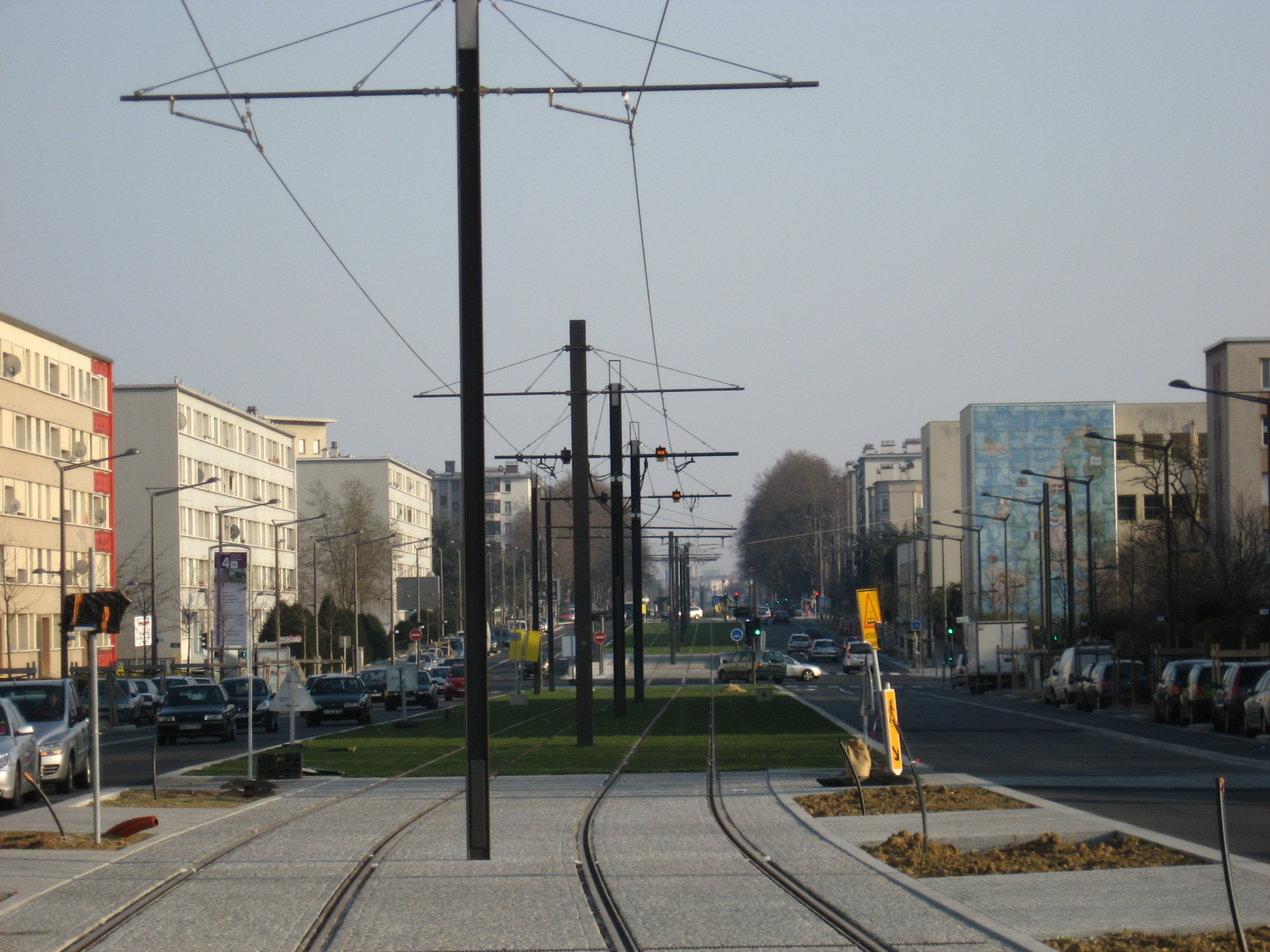 T4 tramline